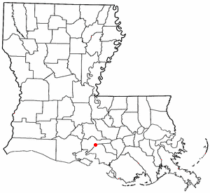 A bunch of squiggles that whoever uploaded this here doesn't care enough about to describe.